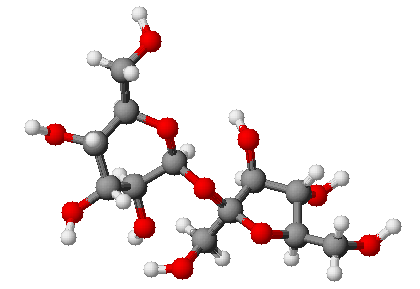 Molecular model of the sucrose molecule.